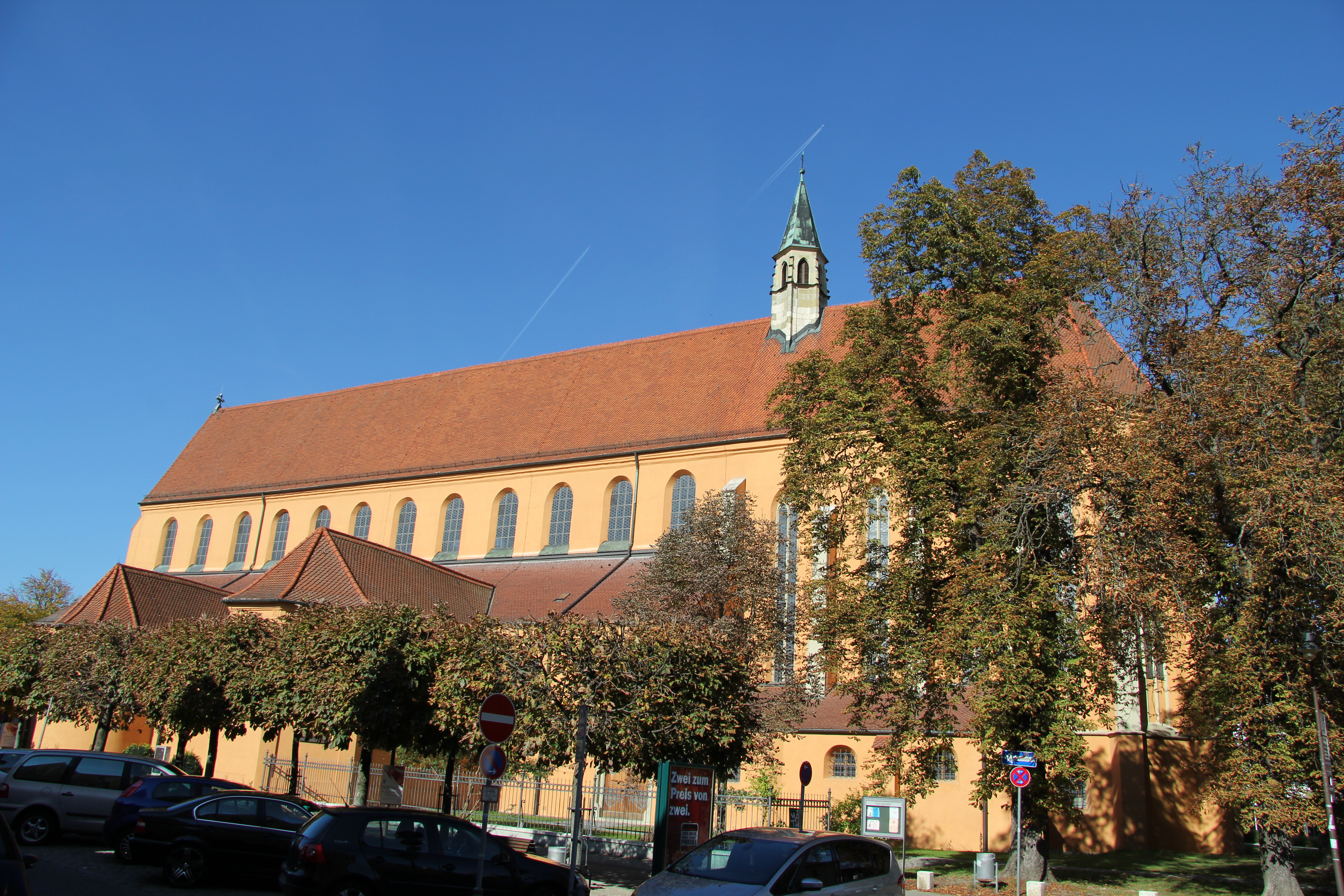 Ingolstadt, Franciscan Church, south side from Beckerstraße